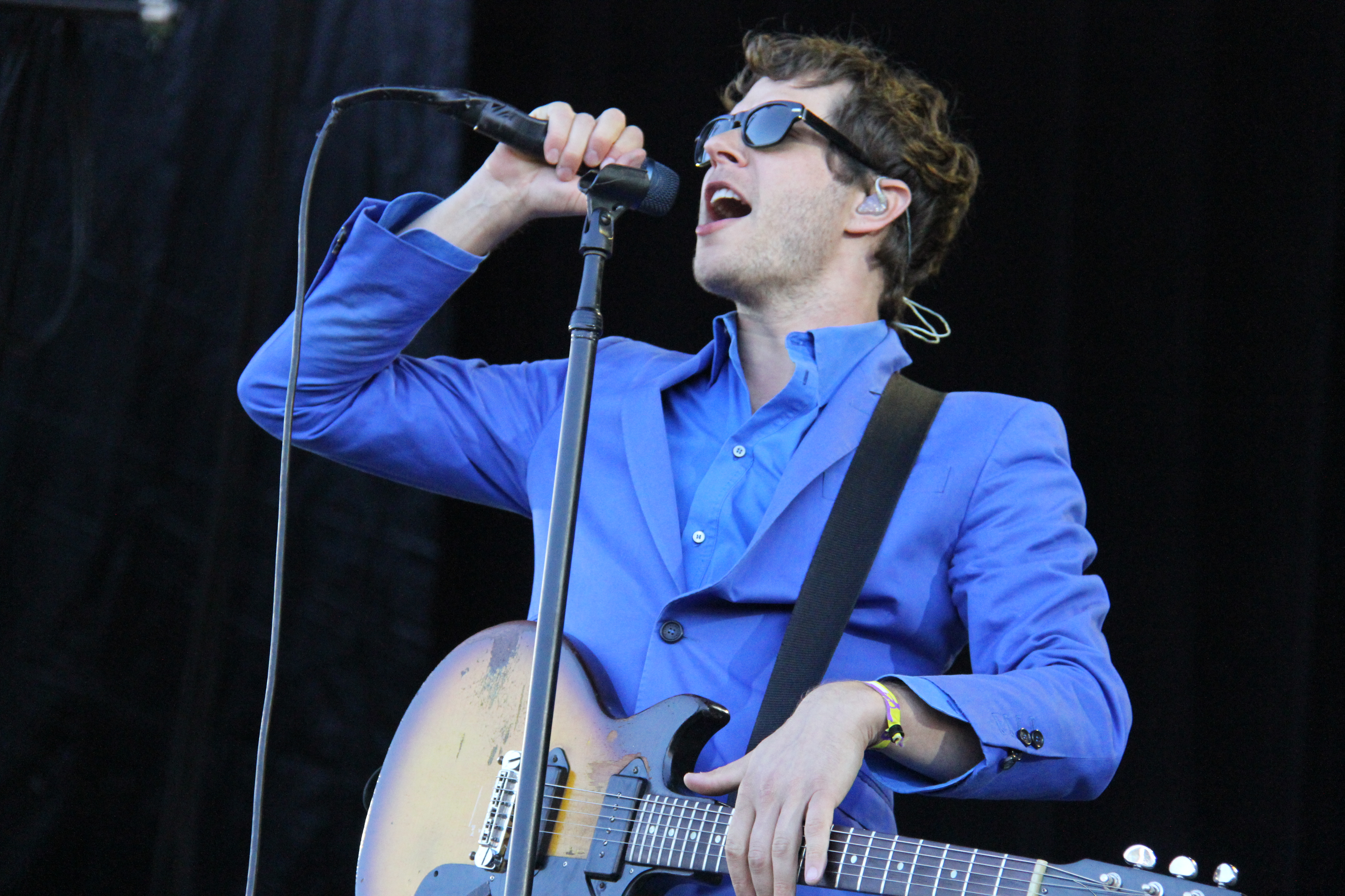 Damian Kulash performs at the Outside Lands Music Festival 2011 in San Francisco, California.